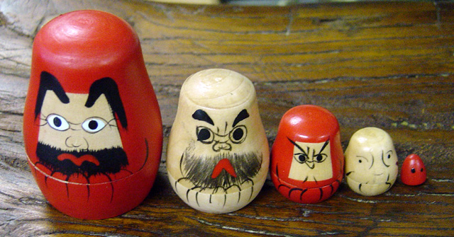 Japanese "matryoshka". The big one on the left is about 2" tall. Each one is made of wood and can fit inside the next bigger one on the left. Found in a gift shop in Hakone Gardens in Saratoga, California on February 5, 2005.